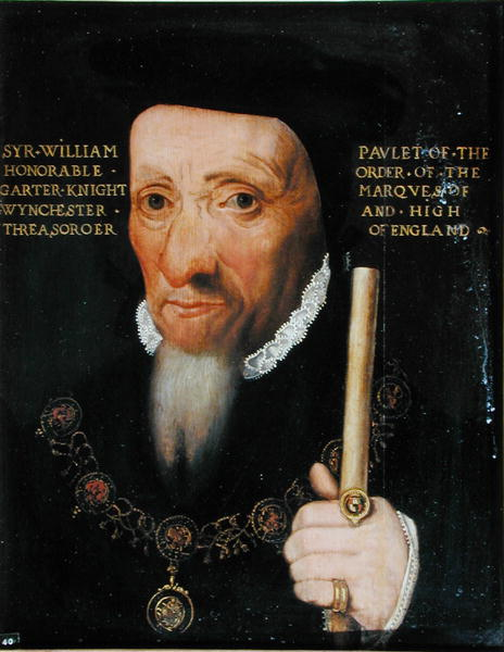 Portrait of William Paulet, 1st Marquess of Winchester (c.1483–1572)